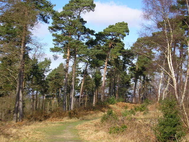 Pine trees, Caesar's Camp, near to Easthampstead, Bracknell Forest, Great Britain. Trees on the edge of the hill fort.